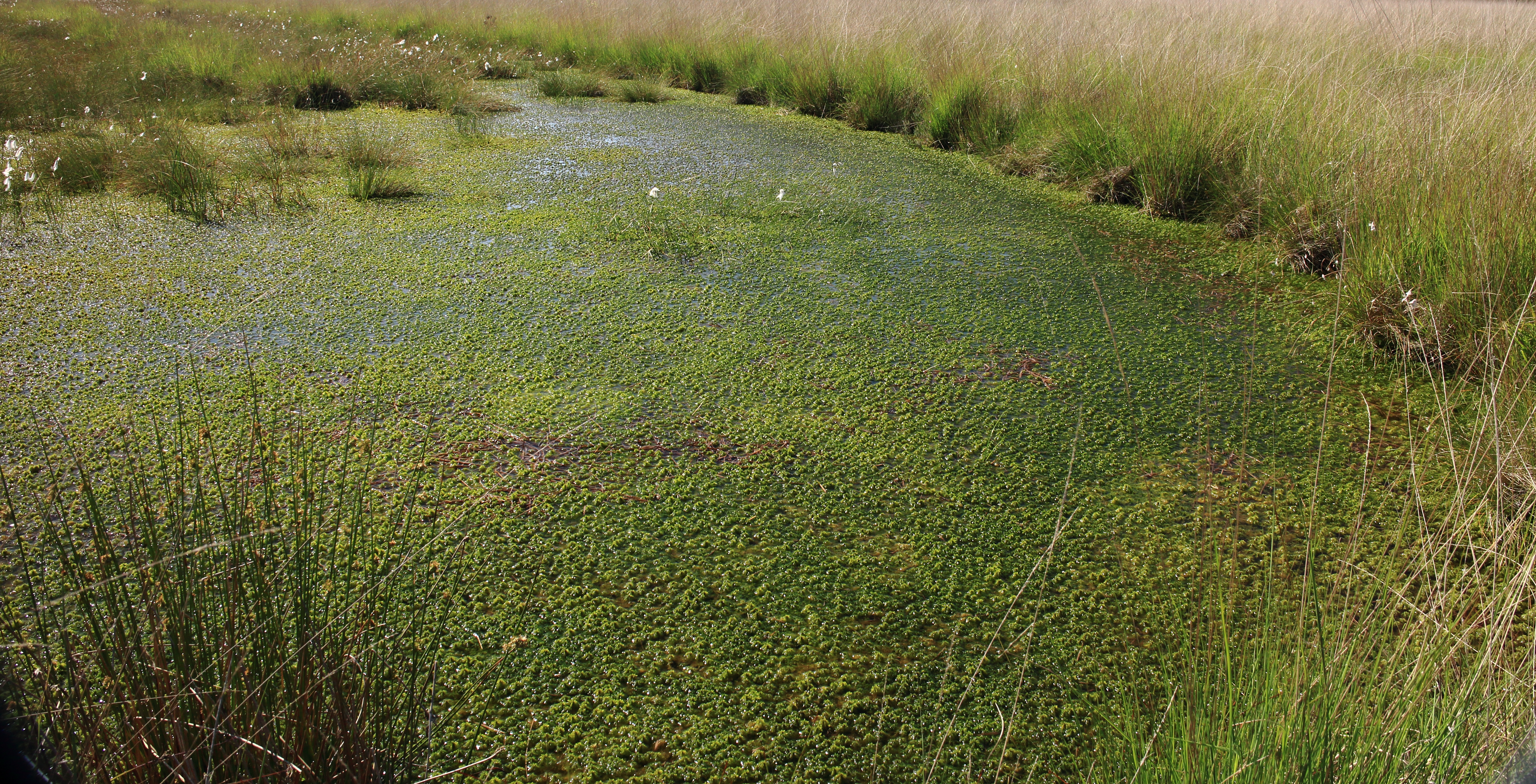 Nationaal Park Drents-Friese Wold. Location Fochteloërveen. Waterveenmos (Sphagnum cuspidatum), Veenpluis (Eriophorum angustifolium) This is a photo or sound file made in Drents-Friese Wold National Park in the Netherlands, with the main subject of the file in the category: flora